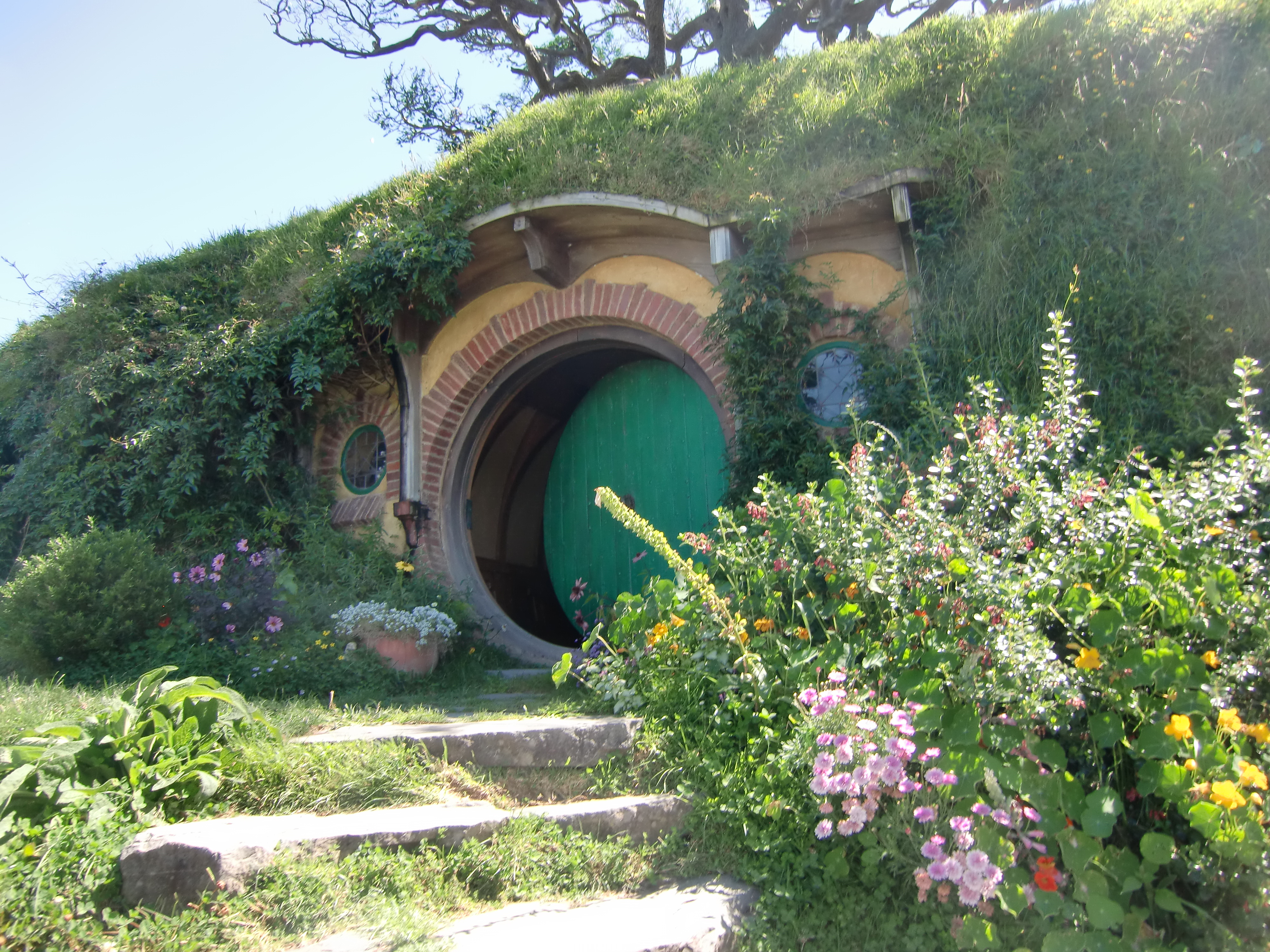 Door of Bag End hobbit hole, near Matamata, New Zealand